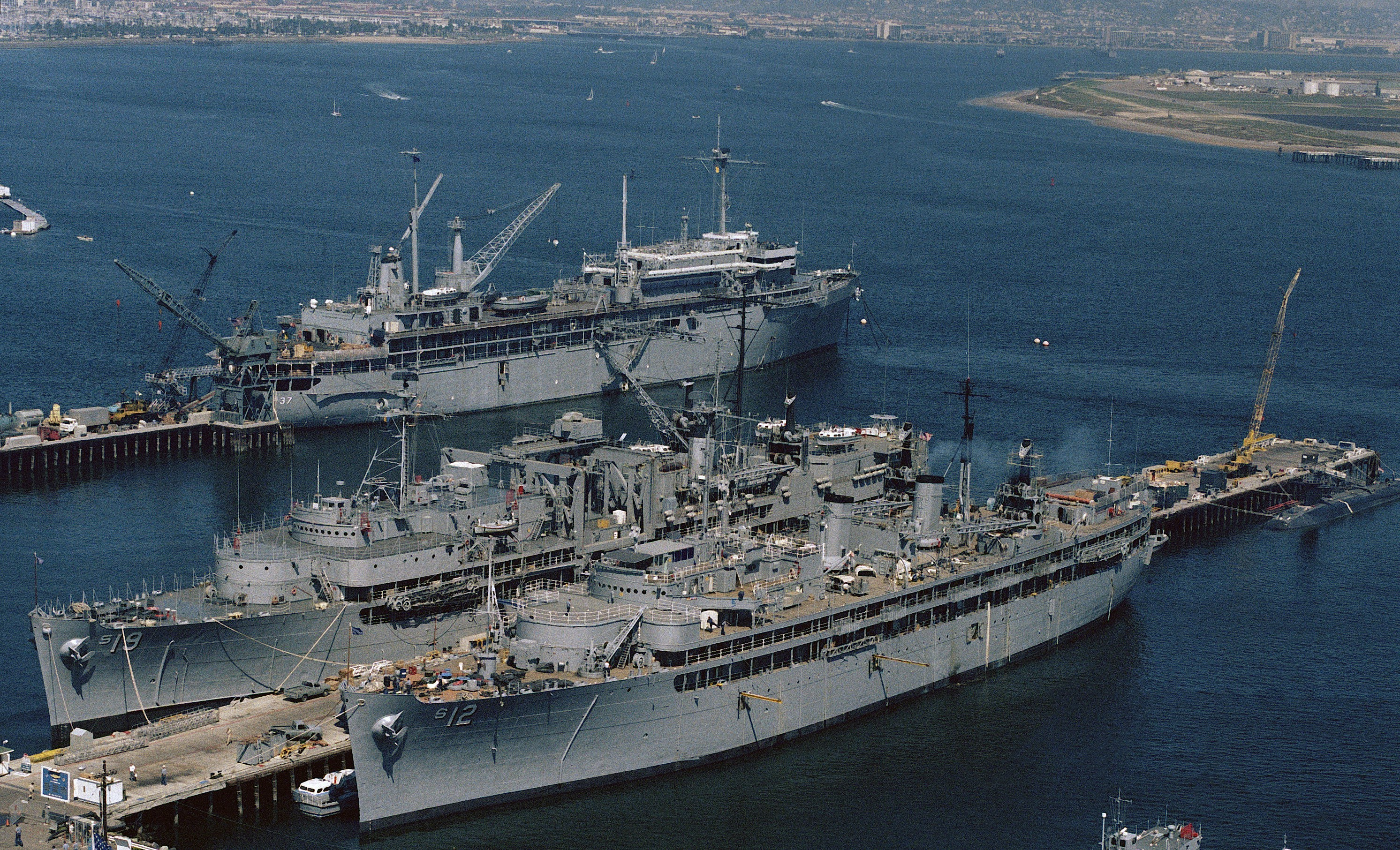 The U.S. Navy submarine tenders USS Sperry (AS-12), right, and USS Proteus (AS-19) docked at Ballast Point, San Diego, California (USA), on 24 January 1985. The submarine tender USS Dixon (AS-37) is docked in the background.